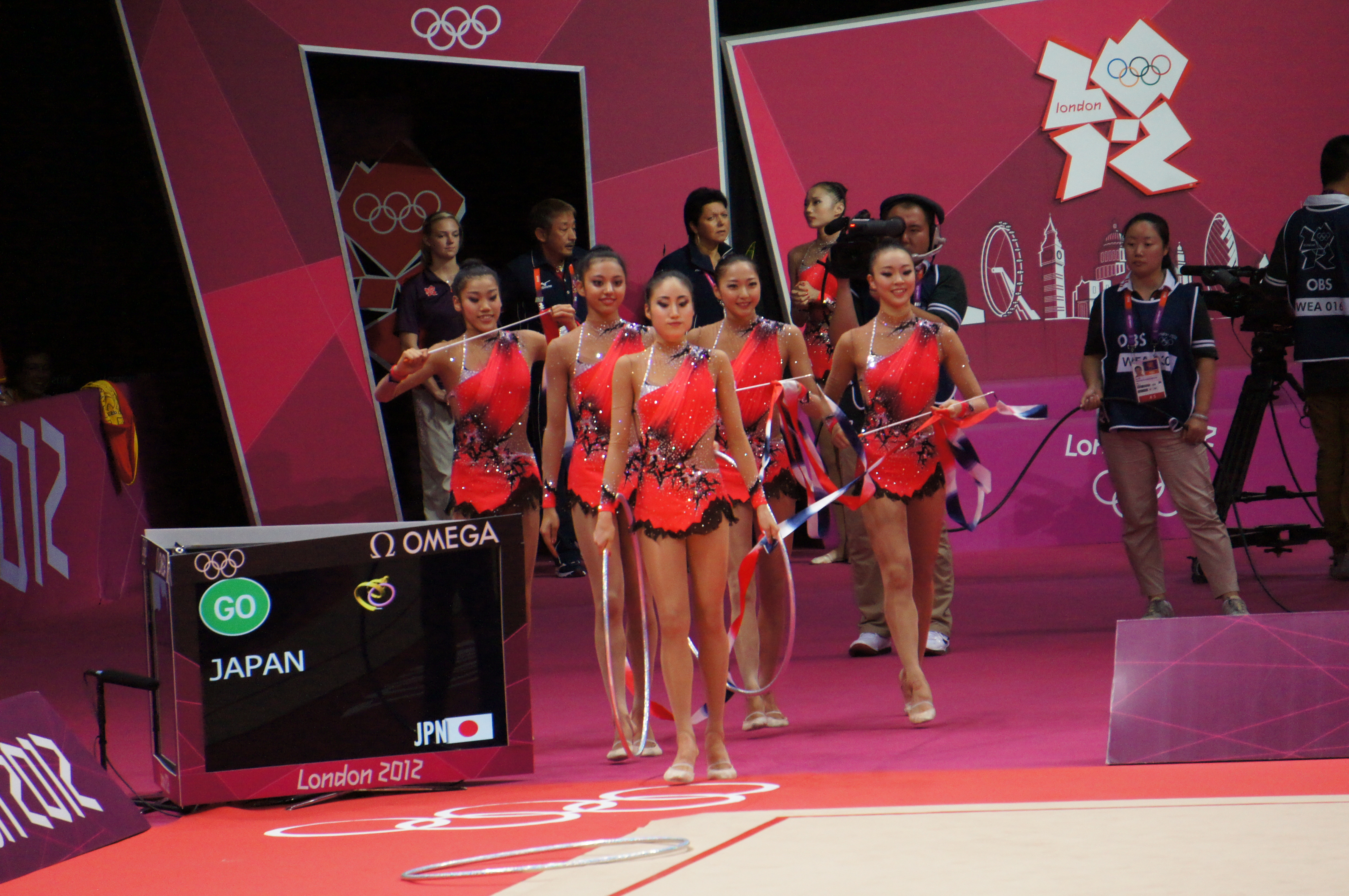 Rhythmic Gymnastics at the Olympic Games in London 2012.